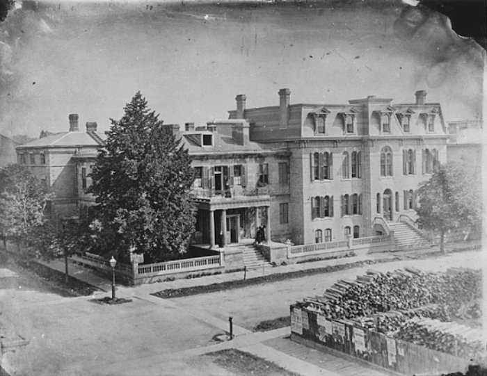 The Bank of Upper Canada, on Adelaide Street, Toronto, Ontario, Canada, 1872, with the left portion of the structure, which still stands, occupied by the bank, c. 1830-1861.